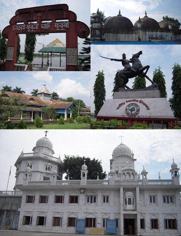 (Clockwise from the top) Netai Dhubunir Ghat, Dhubri; Three domes of the Panbari Mosque, Dhubri; Chilarai Statue, Dhubri; Main temple, Gurdwara Sri Guru Tegh Bahadur Sahib; and B N College, Dhubri অসমীয়া: (ওপৰৰ পৰা ঘড়ীৰ কাটাৰ দিশত) নেতাই ধুবুনীৰ ঘাট, ঐতিহাসিক পানবাৰী মছজিদ, ধুবুৰী নগৰৰ চিলাৰাইৰ প্ৰতিমূৰ্তি, শ্ৰী গুৰু তেগবাহাদুৰ চাহিৱ গুৰুদ্বাৰ, আৰু ভোলা নাথ মহাবিদ্যালয়